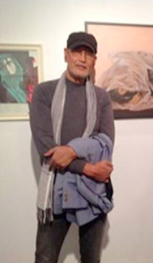 Philippine National Artist Benedicto Cabrera in New York